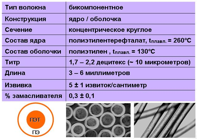 Бикомпонентное волокно под микроскопом + состав волокна.